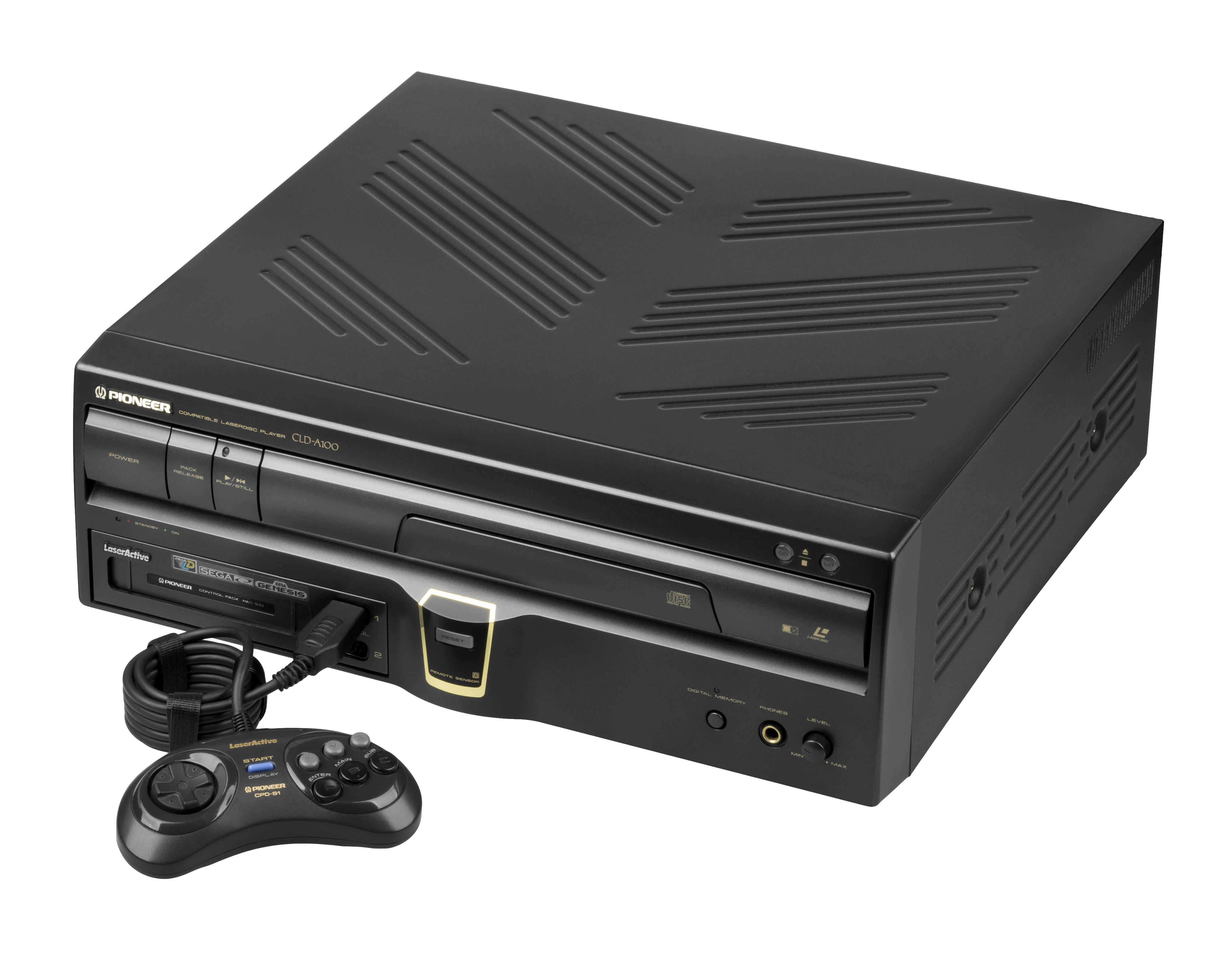 The Pioneer LaserActive, a LaserDisc player/home video game console hybrid that was released 1993 for $970. The base configuration could only play music CDs and LaserDisc movies, however, so you'd have to buy the optional Sega Genesis or NEC TurboGrafx-16 packs to play other games. They were expensive ($600 each) and only had a few LaserDisc hybrid games available each.